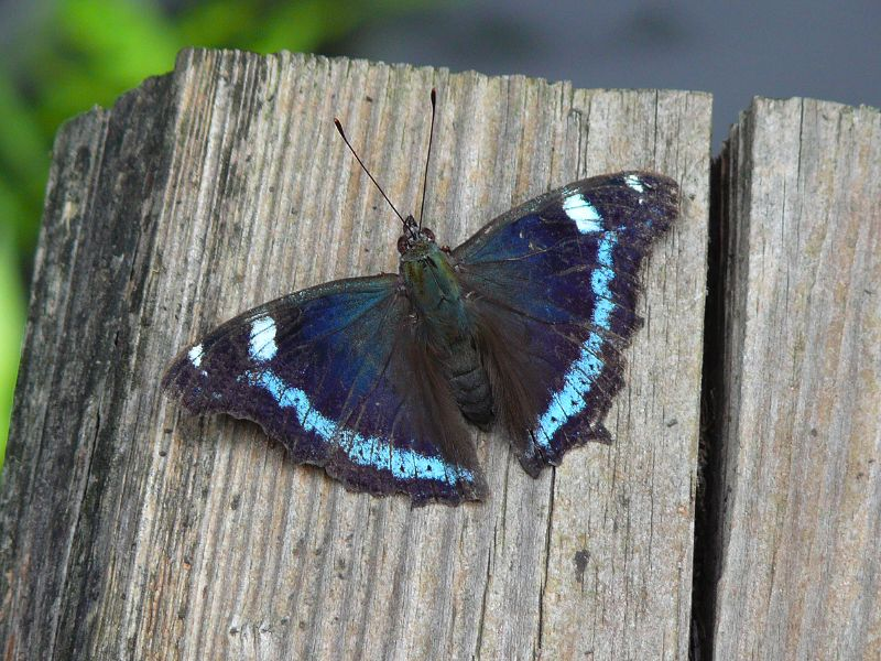 ルリタテハ (Kaniska canace) 撮影日：2006年 8月29日 撮影地：東高根森林公園（神奈川県川崎市宮前区神木本町） 撮影者：cory 出典： "Ruritateha" (Kaniska canace, Blue Admiral). Date: 2006-08-29 (Aug 29, 2006) Place: Higashitakane Shinrin-koen (forest park), Miyamae Kawasaki Kanagawa, Japan. Author: ISAKA Yoji (cory)